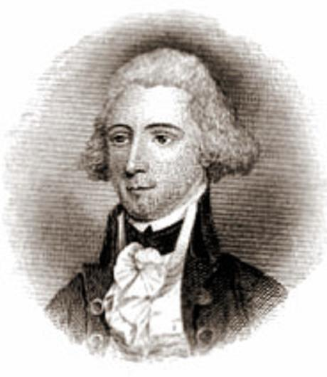 Ebenezer Denny (March 11, 1761 – July 21, 1822) was a soldier during the American Revolutionary War whose journal is one of the most frequently quoted accounts of the surrender of the British at the siege of Yorktown. Denny later served as the first Mayor of Pittsburgh, from 1816 to 1817.